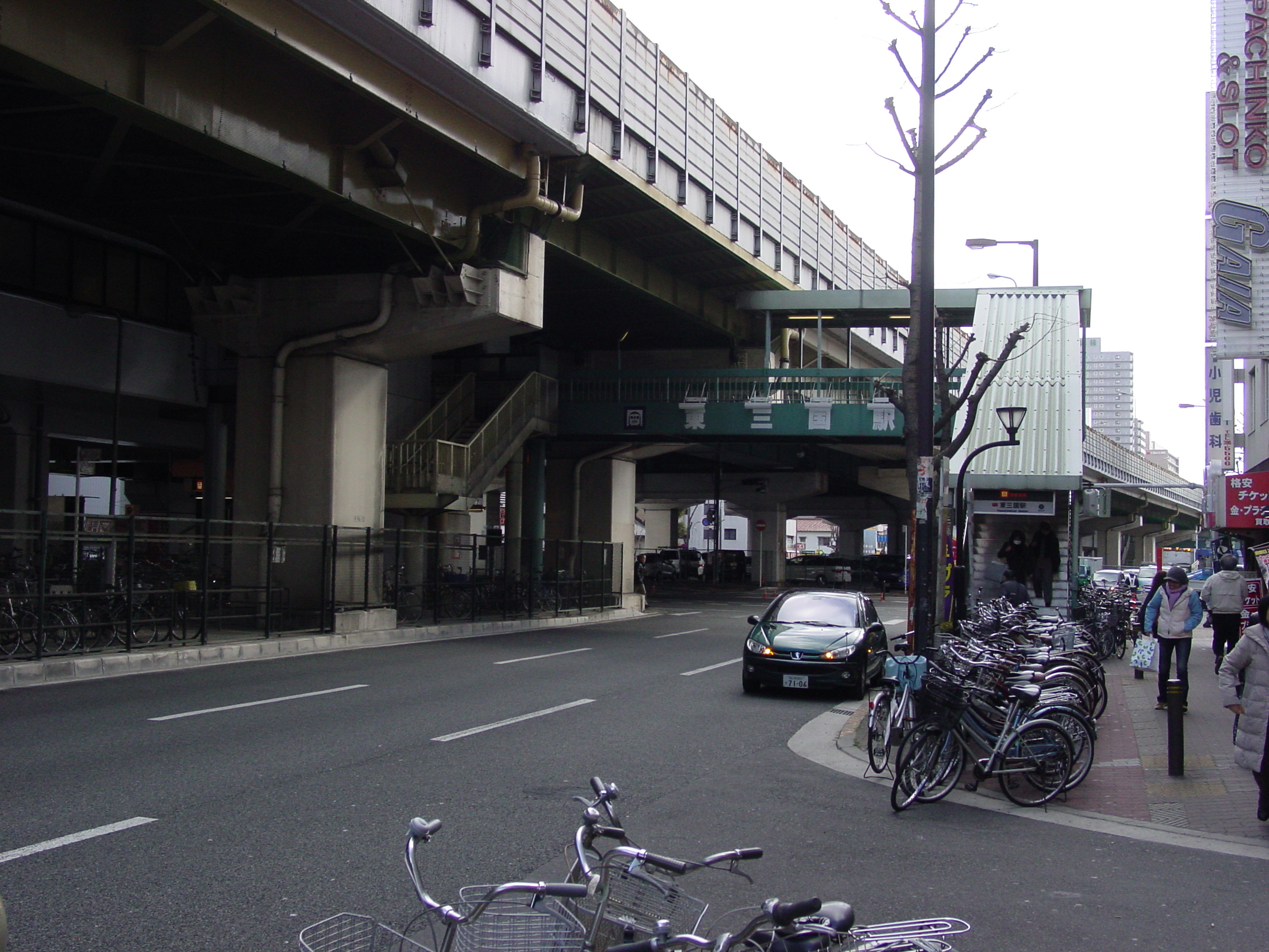 Higashi-Mikuni Station of Osaka Municipal Subway Midōsuji Line.